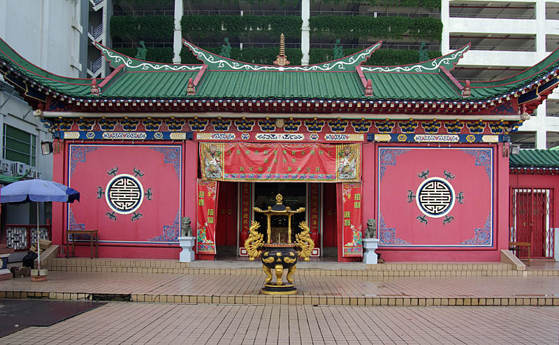 Teng Yun Temple, Bandar Seri Begawan, Brunei-Muara, Brunei